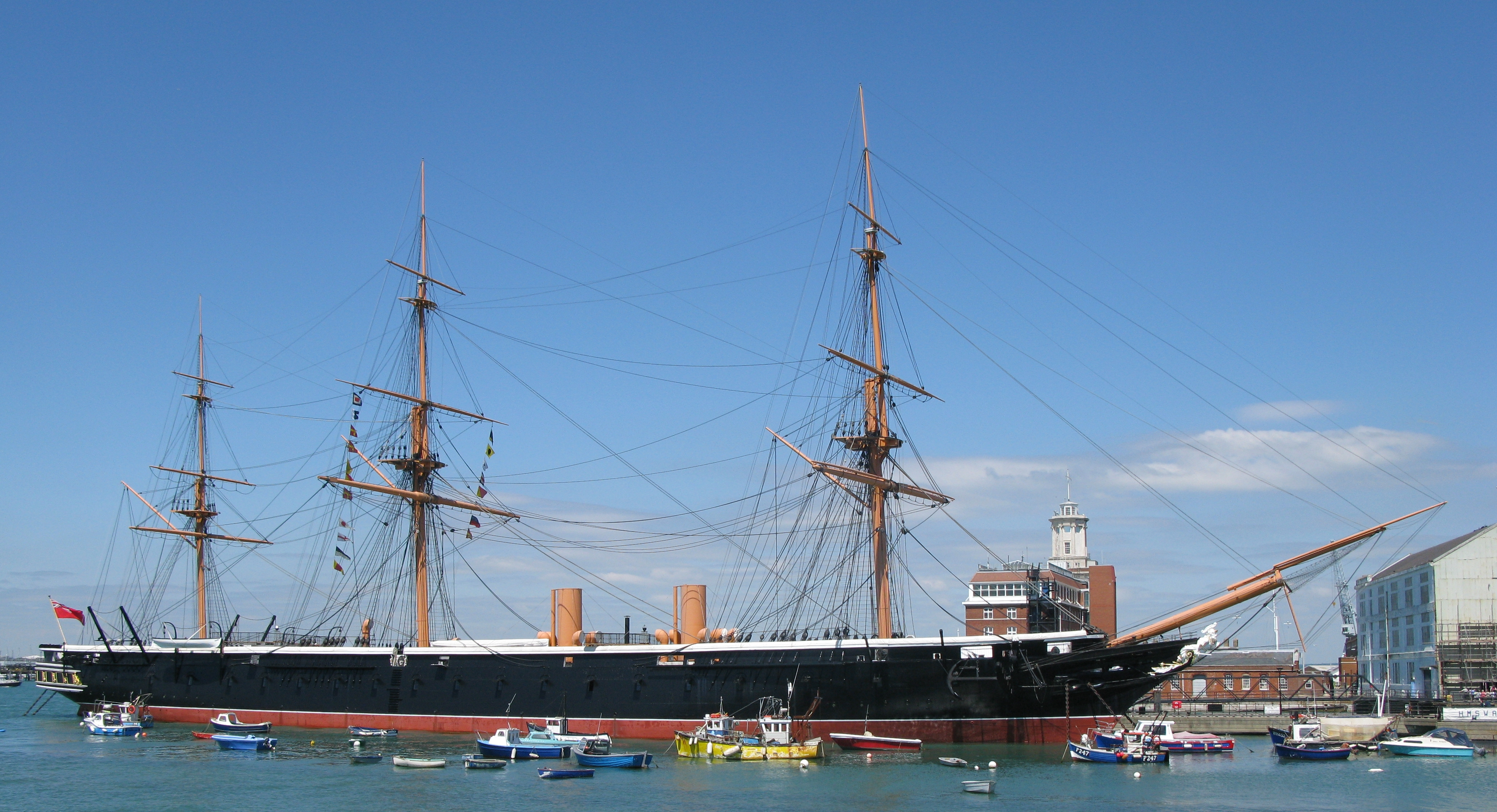 Photo of the ironclad HMS Warrior (1860) with the tide in.